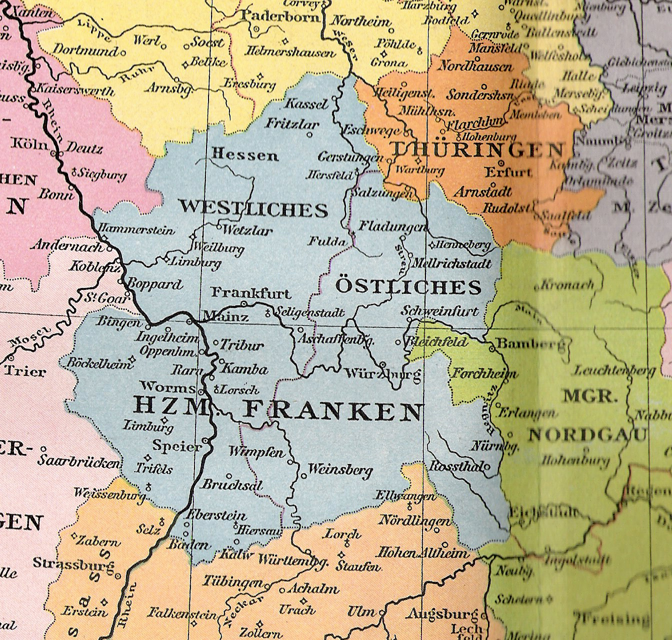 Duchy of the Franks around 800